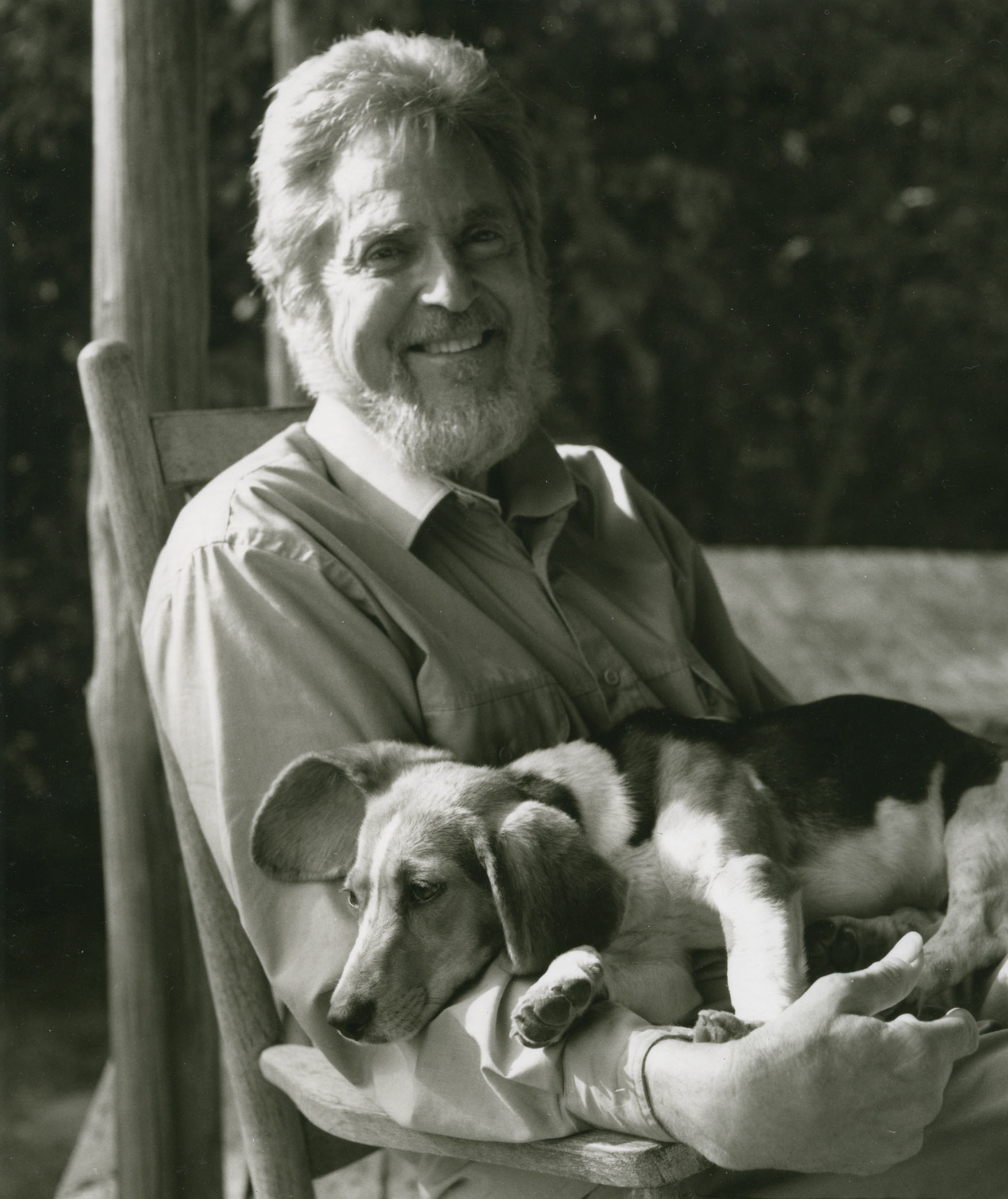 photo of folk musician Guy Carawan